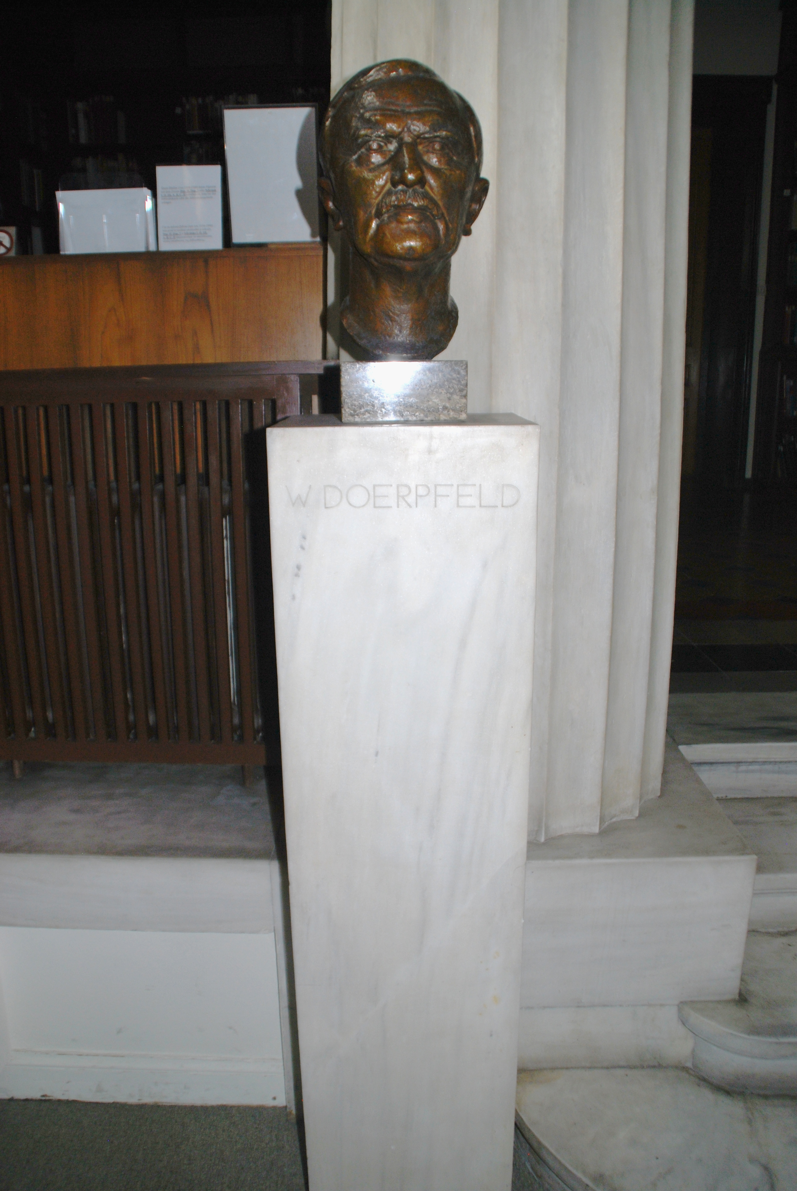 Library of the German Archaeological Institute in Athens.